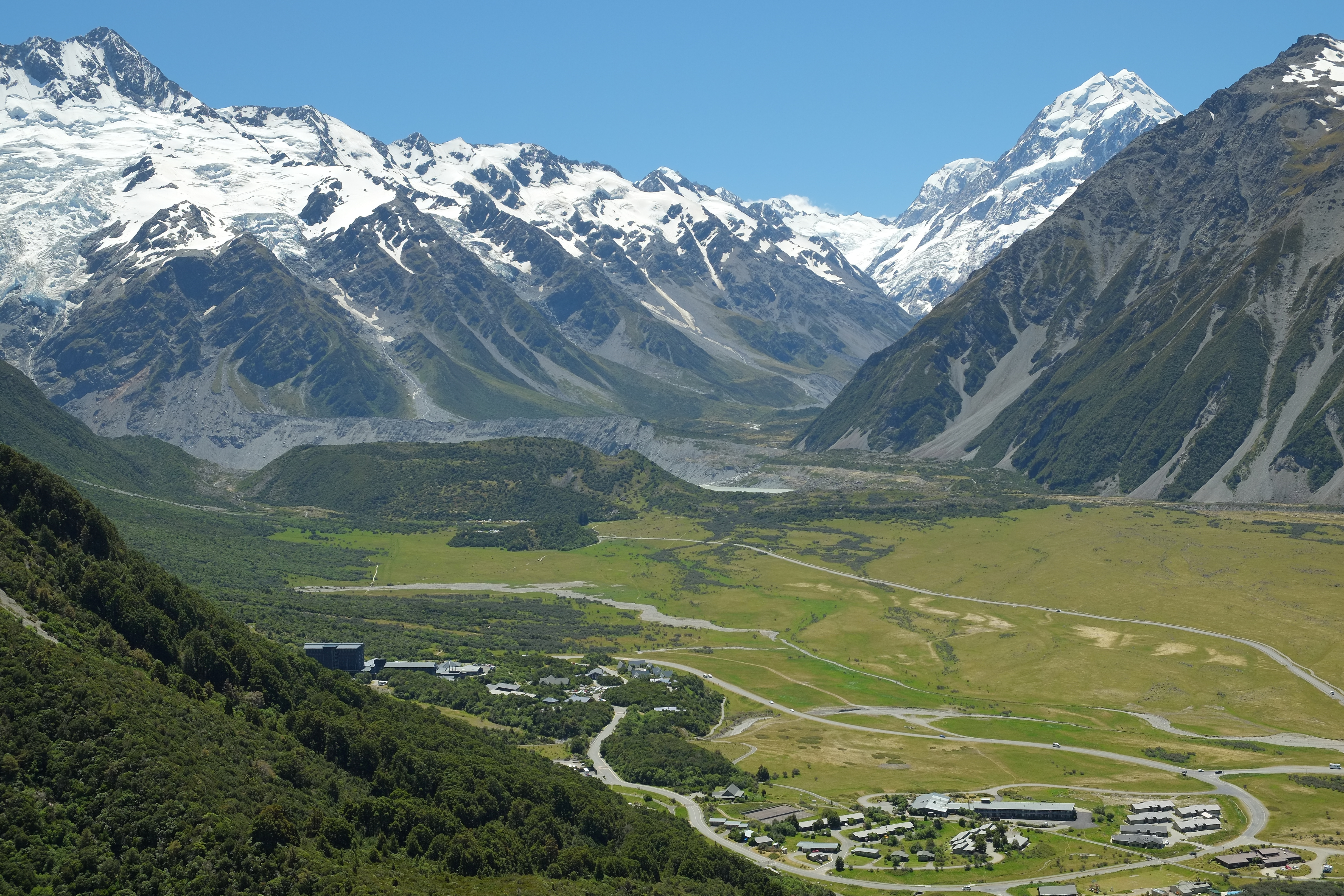 View over Mount Cook Village to The Footstool (far left) and Mount Cook